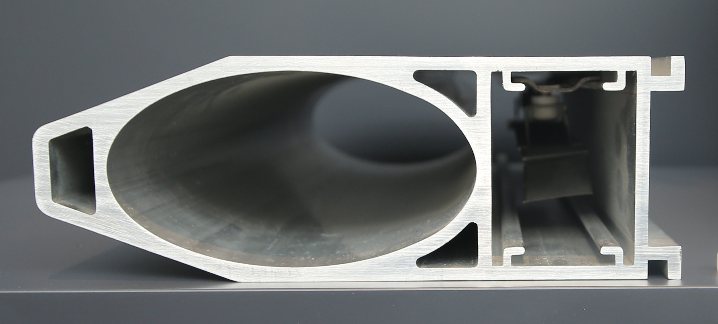 Photo of a section of the LEP particle beam tube. The beams were held within the oval section while the square section o the left contained the getter strip that absorbed stray gases.